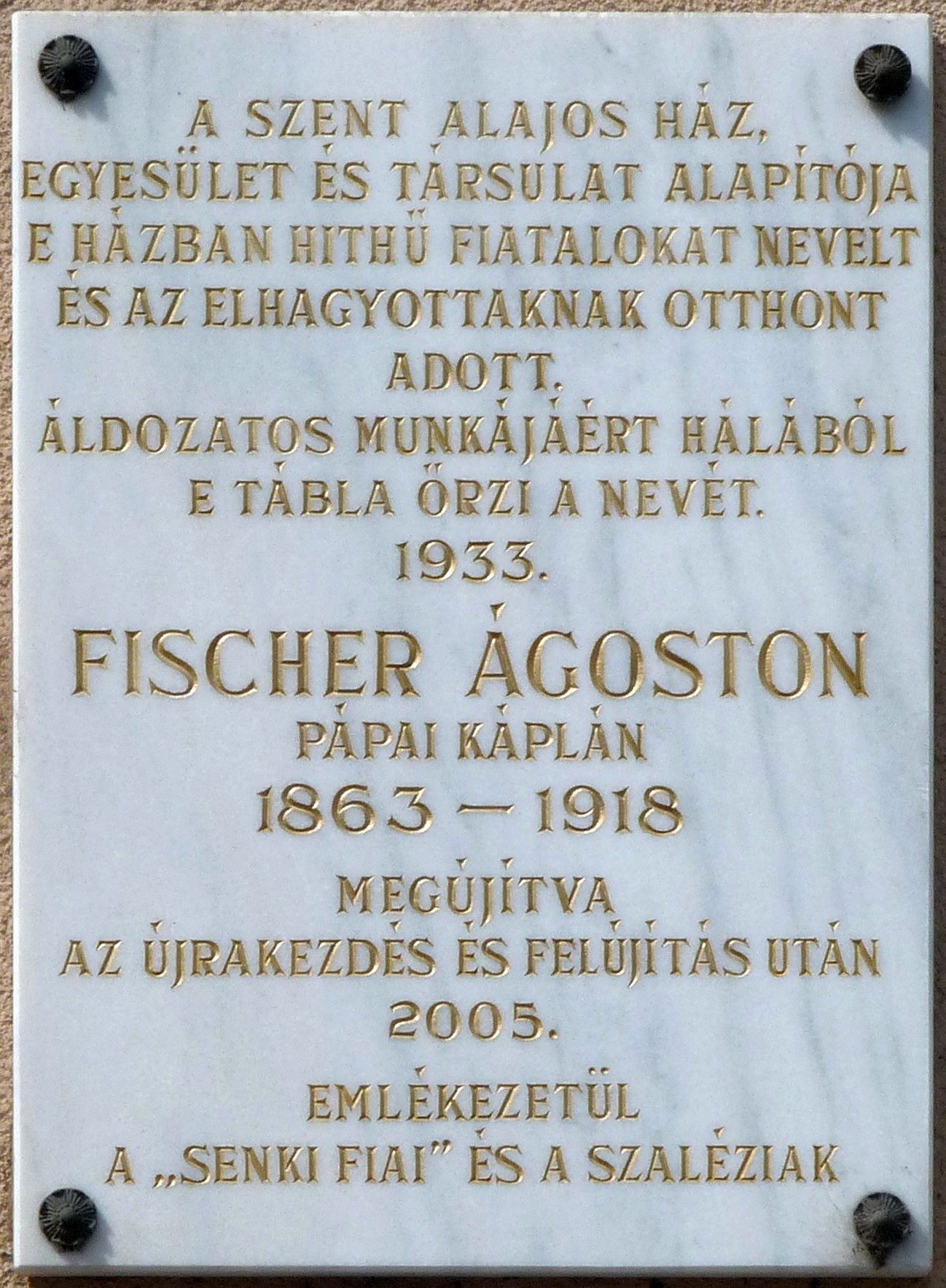 Commemorative plaque to Mr. Ágoston Fischer (1863-1918) Hungarian Catholic priest and a catechist who implanted the Salesians in Óbuda. It is affixed to the front of the house where he was able to open a boarding school for homeless boys in 1912 and transform one of the rooms into a chapel. (Budapest, District III, Kiscelli Street Nr 79)